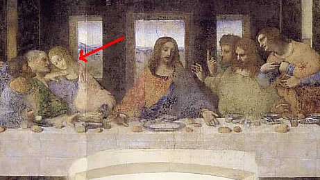 Detail of the The Last Supper by Leonardo da Vinci. As explained by Leigh Teabing to Sophie Neveu, the figure at the right hand of Jesus is supposedly not the apostle John, but Mary Magdalene, who was his wife and pregnant with his child. The absence of a chalice in the painting supposedly indicates that Da Vinci knew that Mary Magdalene was actually the Holy Grail (the bearer of Jesus' blood). This is reinforced by the letter "M" that is created with the bodily positions of Jesus, Mary, and the male apostle (Saint Peter) upon whom she is leaning. Saint Peter is also positioned with the blade of his hand next to Mary Magdalene's throat in a threatening gesture. This is supposedly because Peter is jealous of Jesus' greater love for Mary Magdalene than for his disciples. Mary Magdalene and Jesus also create a 'v' shape - the female symbol, for feminity, womanhood and fertility. They are also mirror images of each other - Jesus in red robe and blue cloak, Mary Magdalene in a blue robe and red cloak. I lel. Based on a scan by Mark Harden.